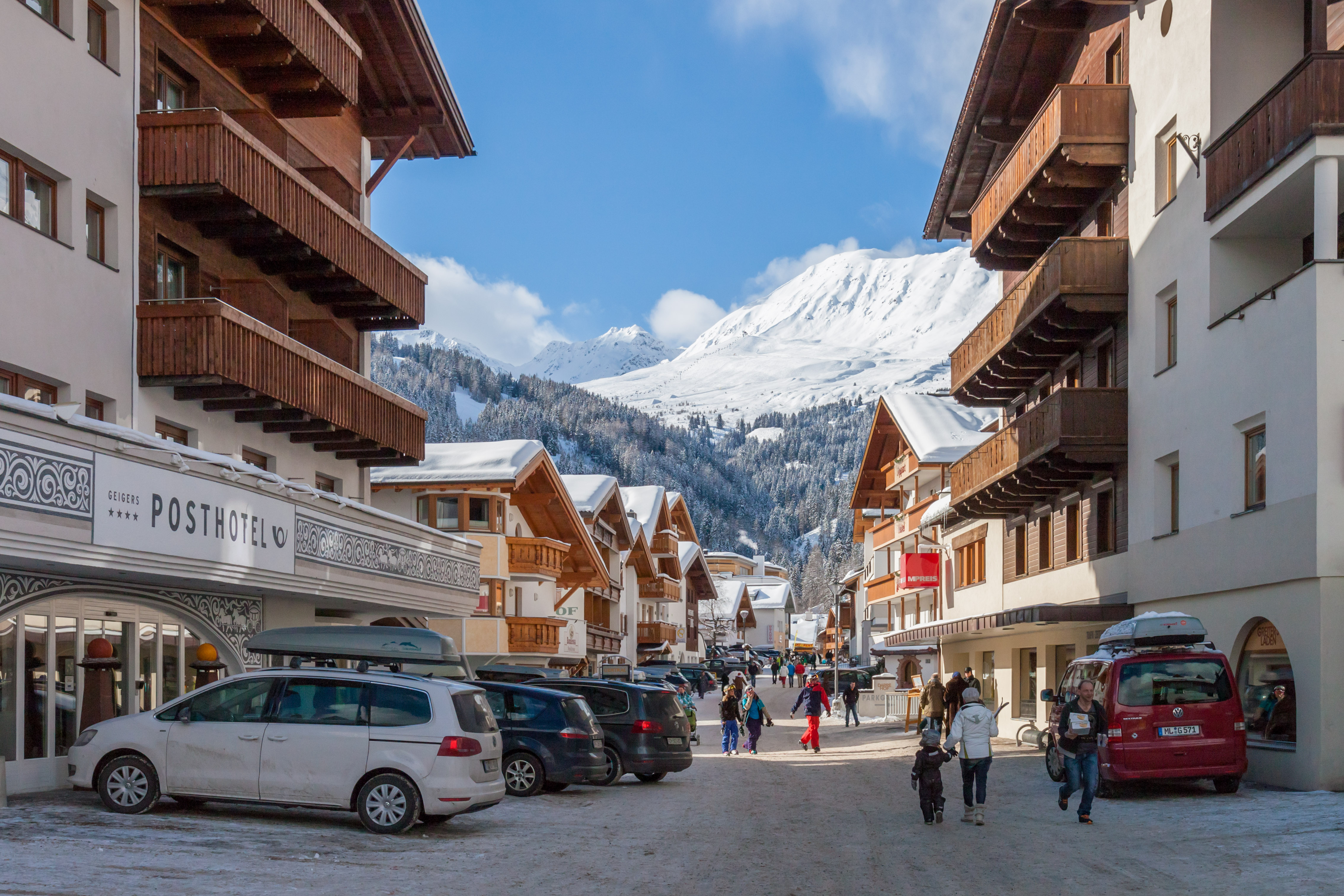 Serfaus, Tyrol, Austria